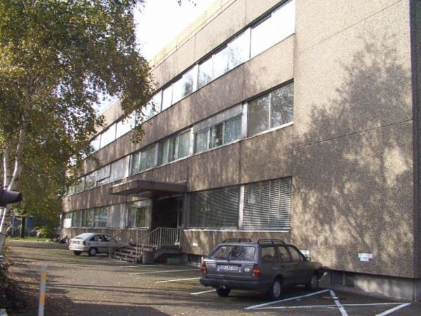 Photo shows the Entrance of the Baitus Sabuh, Center of Ahmadiyya Muslim Community in Germany